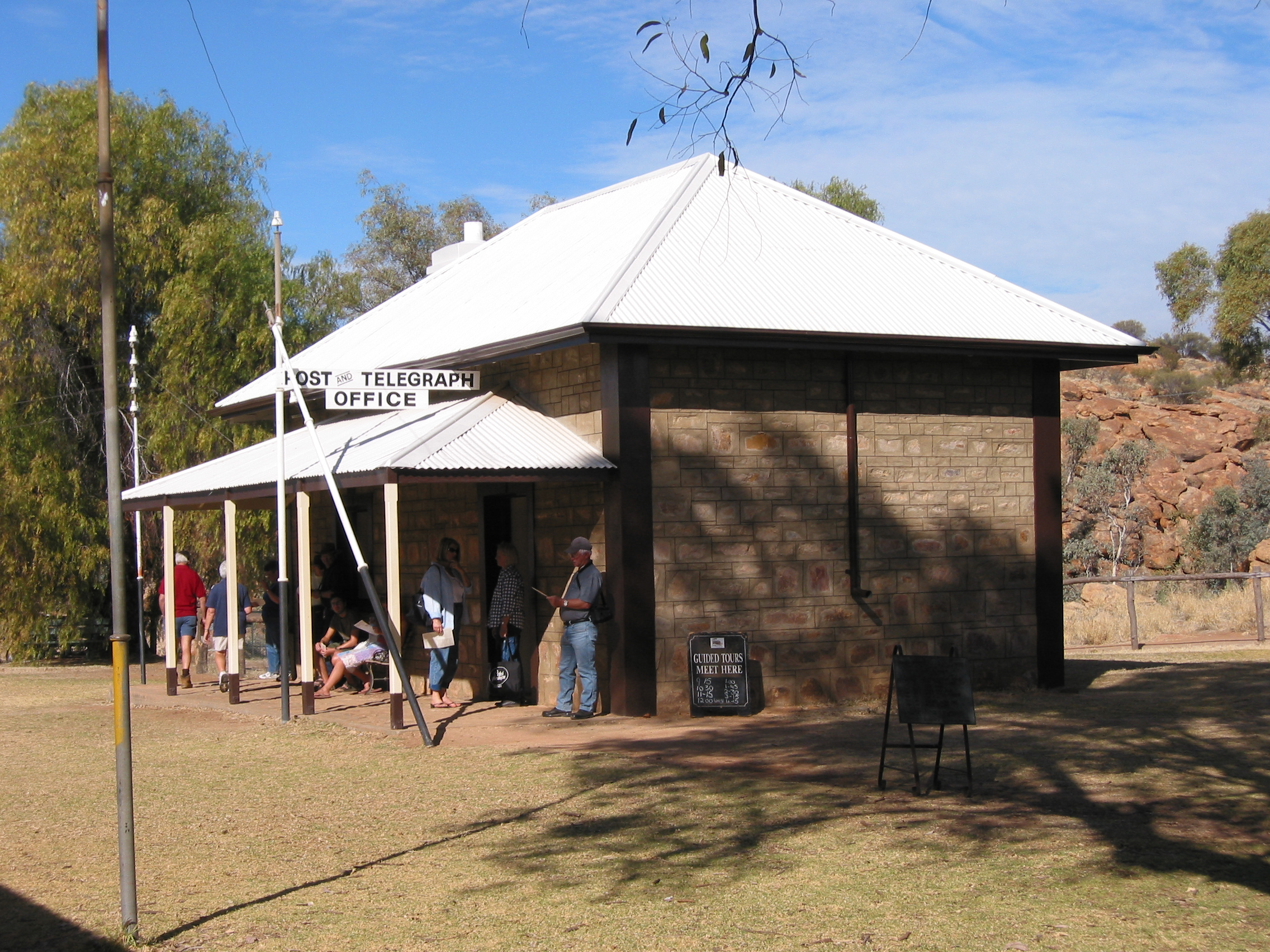 An old telegraph station, Alice Springs, Northern Territory